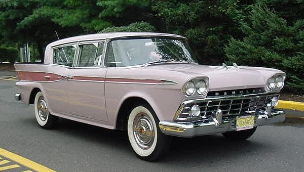 1959 Rambler four-door sedan by American Motors Corporation (AMC) - two-tone. Photograph taken at AMCRC car show that was held in Somerset, New Jersey.